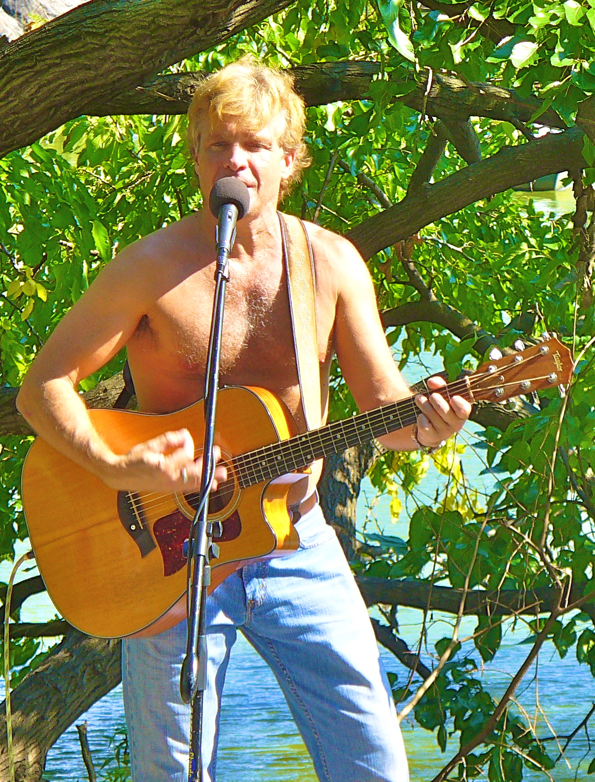 David Ippolito, otherwise known as That Guitar Man from Central Park, plays in his usual spot on September 25, 2010.